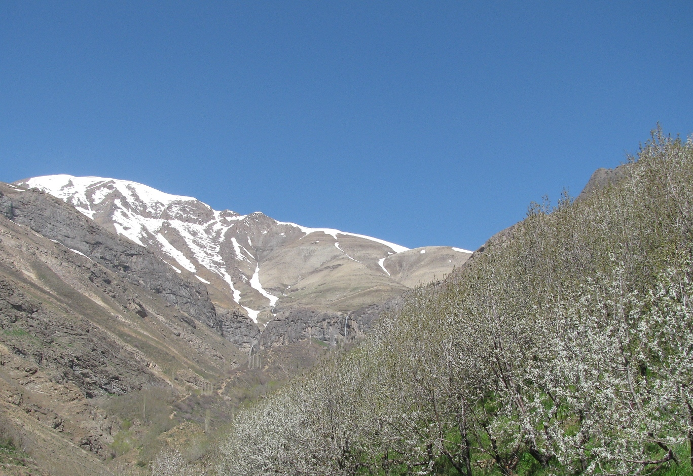 Pahne Hesar Mountains, northwest of Tehran, Iran. Sangan Waterfall can be seen in the center of the image.